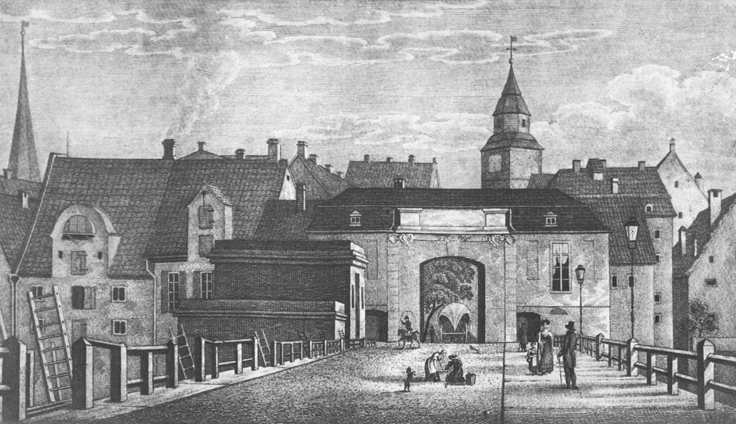 Copper engraving by Stephan Messerer (1798–1865) from the year 1833 showing the Weser bridge in Bremen with the bridge gate built 1688 by Jean Baptiste Broëbes.